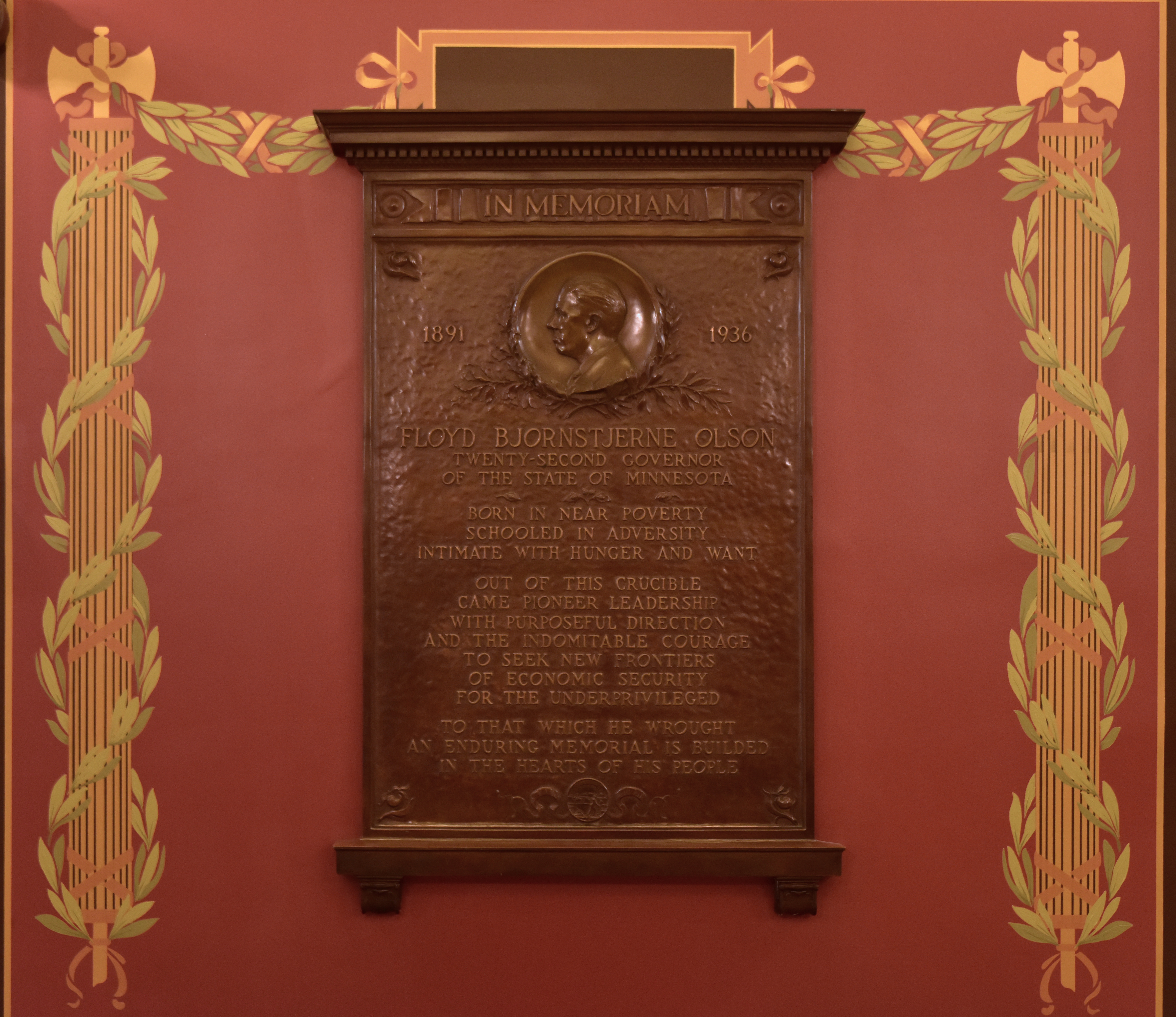 A monumental plaque for former Farmer-Labor Governor Floyd B. Olson in the Minnesota State Capitol, reading: "In memoriam, 1891-1936, Floyd Bjornstjerne Olson, twenty-second governor of the State of Minnesota. Born in near poverty, schooled in adversity, intimate with hunger and want. Out of this crucible came pioneer leadership with purposeful direction and the indomitable courage to seek new frontiers of economic security for the underprivileged. To that which he wrought an enduring memorial is builded in the hearts of his people."